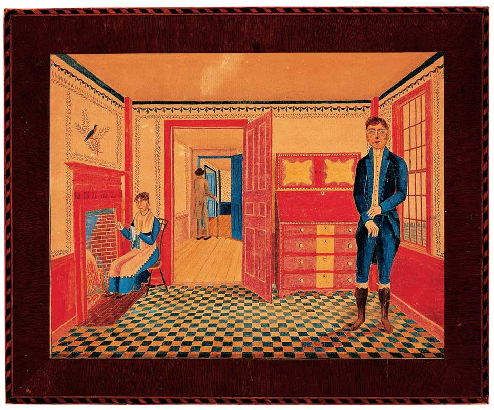 "Interior of John Leavitt's Tavern," watercolor, ink and pencil on paper, by artist Joseph Warren Leavitt (1804–1833). The folk art painting shows the inside of the tavern of the artist's father, John Leavitt, in Chichester, New Hampshire. The painting shows the Marquis de Lafayette on his 1824–1825 American tour. Lafayette is shown on the right of the painting, with Mrs. Morse, the artist's relation, shown sitting by the fire, with the figure of an unknown person in the middle room. Courtesy of the American Folk Art Museum, New York City.